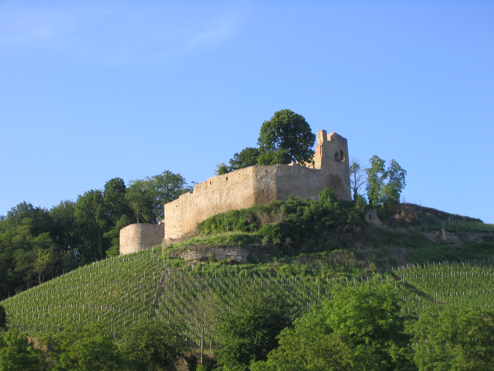 Ruin of Castle Lichteneck in Kenzingen-Hecklingen, Germany